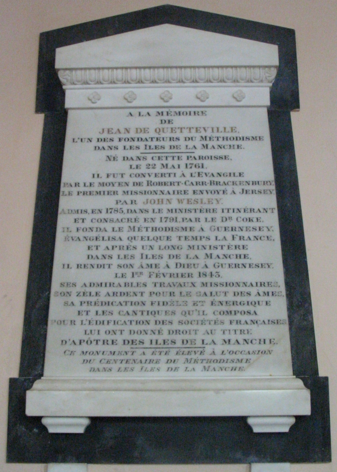 Plaque in St Martin Methodist Church, Jersey, memory of Jean de Quetteville, Methodist missionary in the Channel Islands